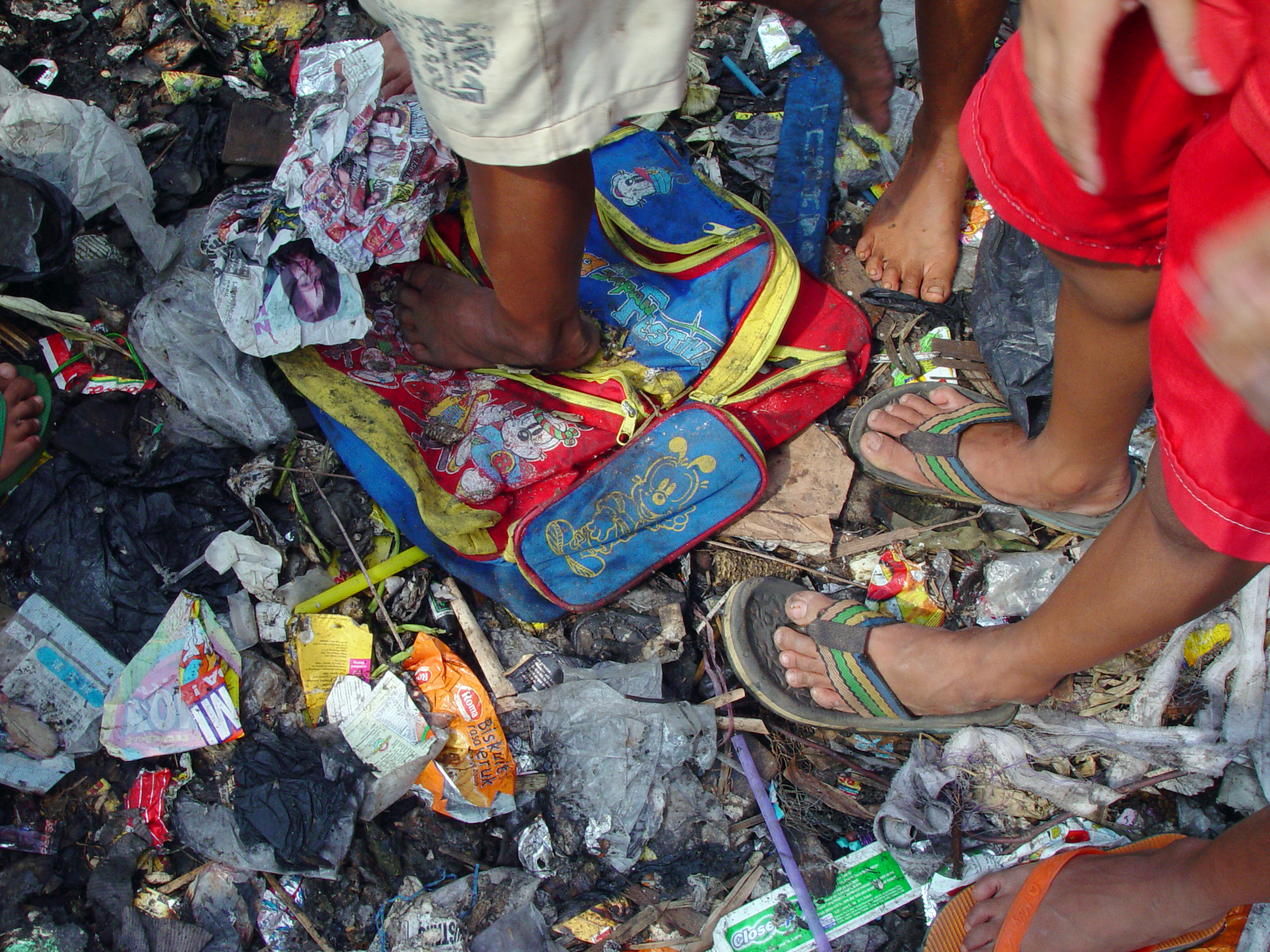 Slum life, Jakarta Indonesia.